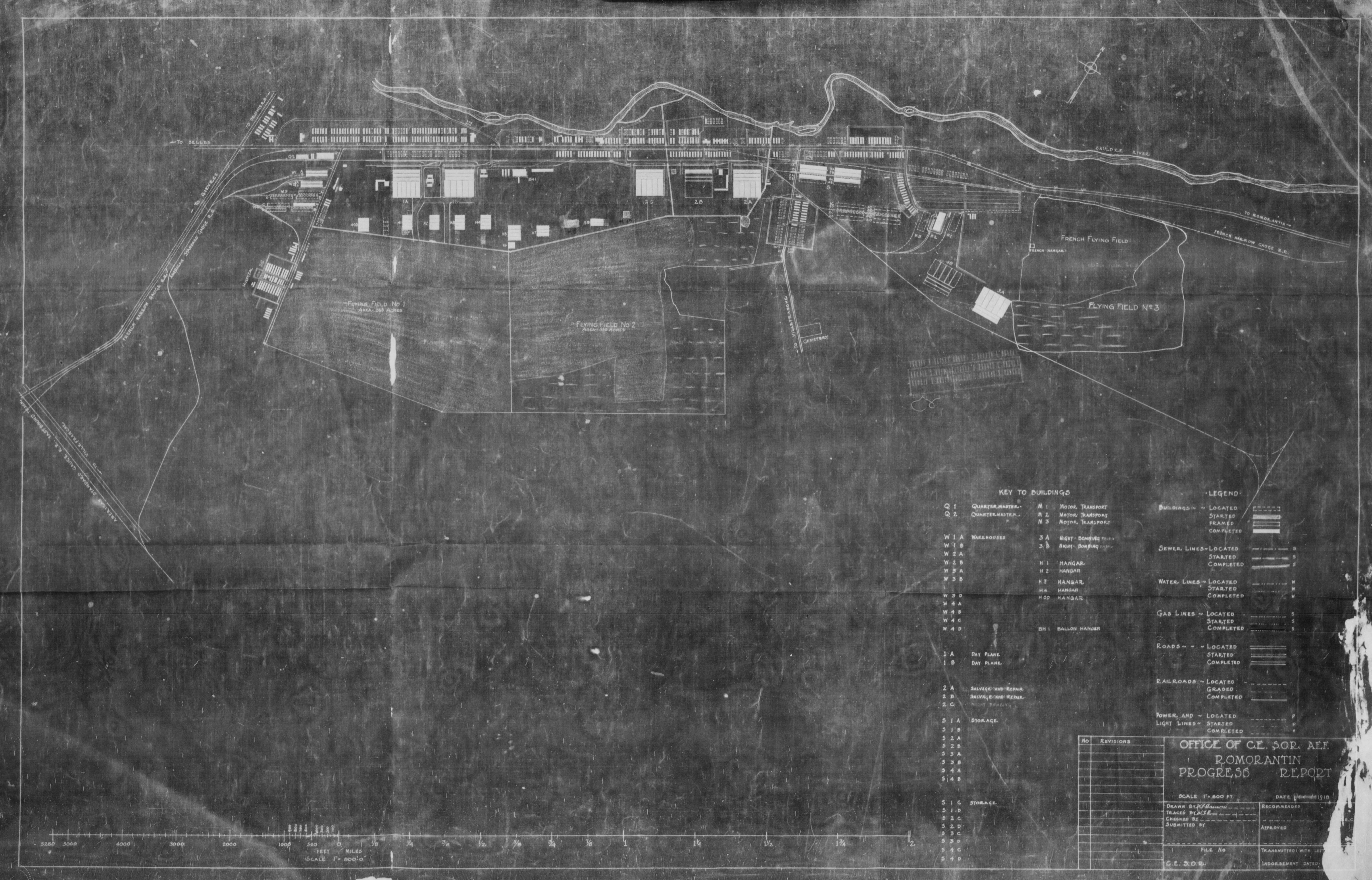 Map of Air Service Production Center No. 2. Romorantin Aerodrome, France, 1918 Series 1, Paris Headquarters and Supply Section, Volume 18 History of the Air Service Production Center No. 2 at Romorantin, Gorrell's History of the American Expeditionary Forces Air Service, 1917–1919, National Archives, Washington, D.C.